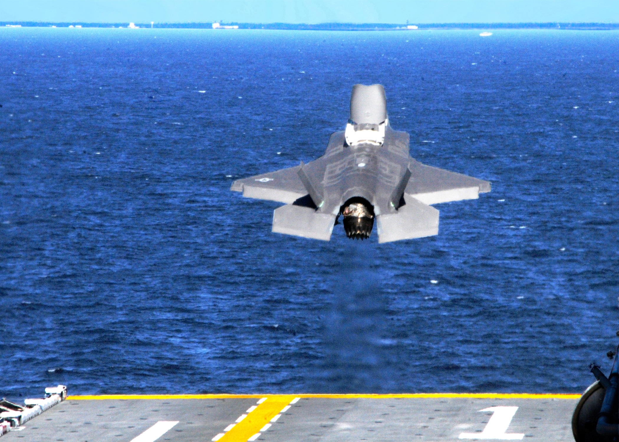 ATLANTIC OCEAN (Oct. 5, 2011) The F-35B Lightning 11 takes off from the amphibious assault ship USS Wasp (LHD 1) for day three of ship trials. The F-35B is the variant of the Joint Strike Fighter for the U.S. Marine Corps, capable of short takeoffs and vertical landings for use on amphibious ships or expeditionary airfields to provide air power to the Marine Air Ground Task Force. (U.S. Navy photo by Mass Communication Specialist 3rd Class Natasha R. Chalk/Released)